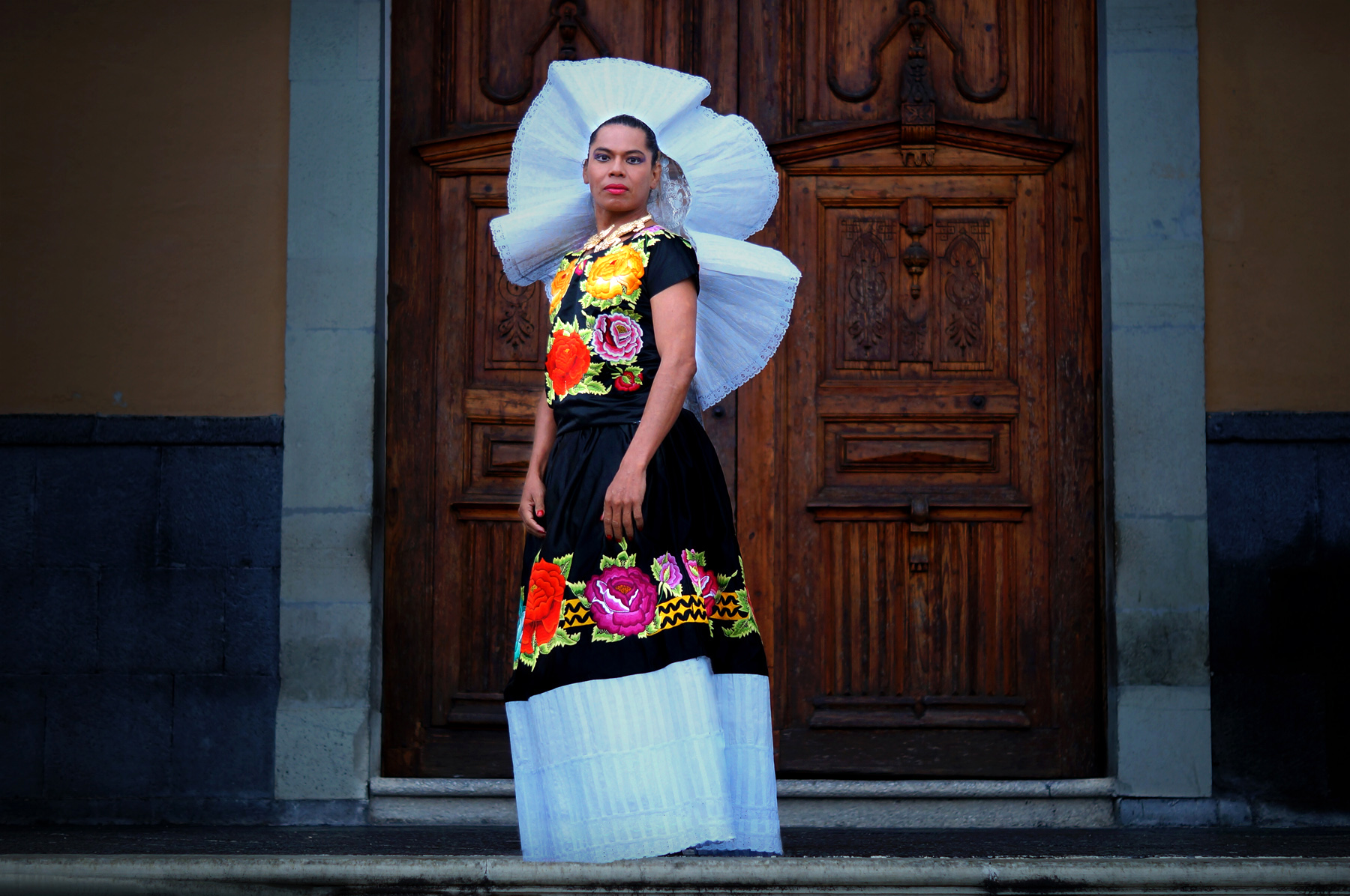 Lukas Avendaño, Muxhe Performance Artist. Zapotec Muxes. Tehuantepec, Mexico.